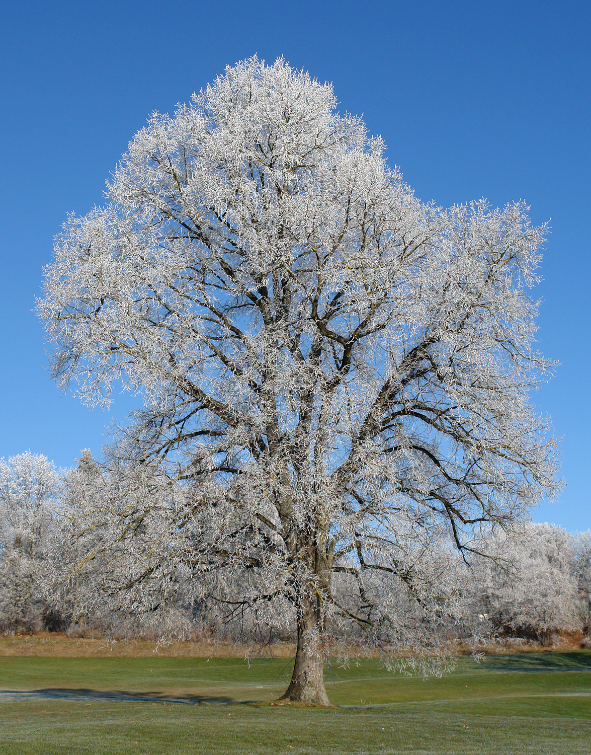 Hoar frost on the golf course from Feldafing (Starnberger See)